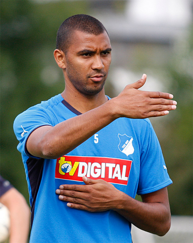 taken in autumn 2009 at a training session in Hoffenheim